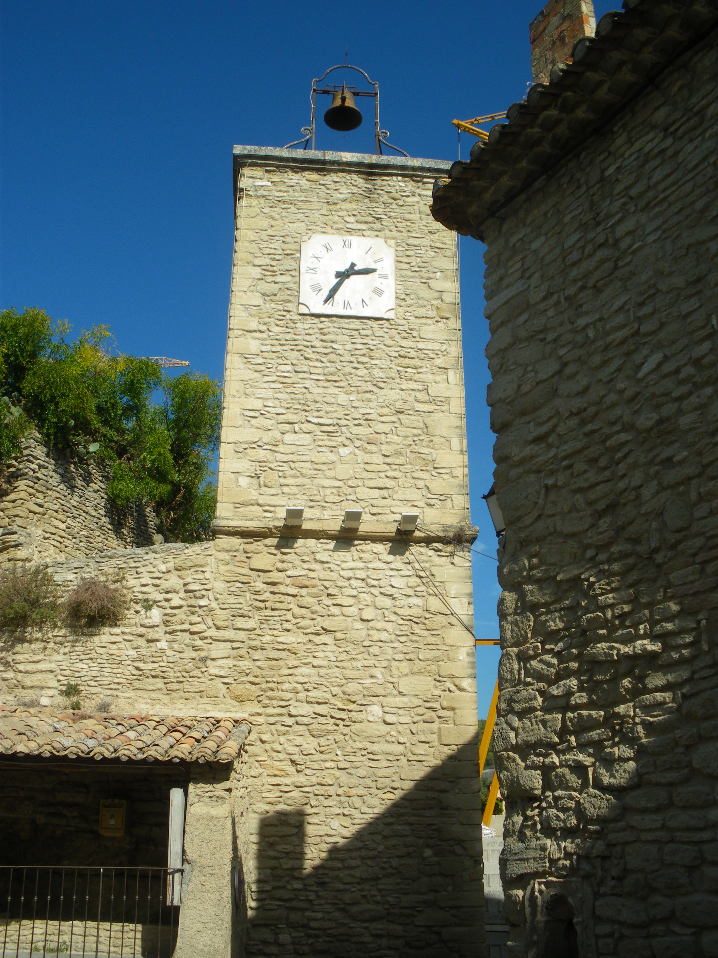 Clock tower, Saumane, Vaucluse France